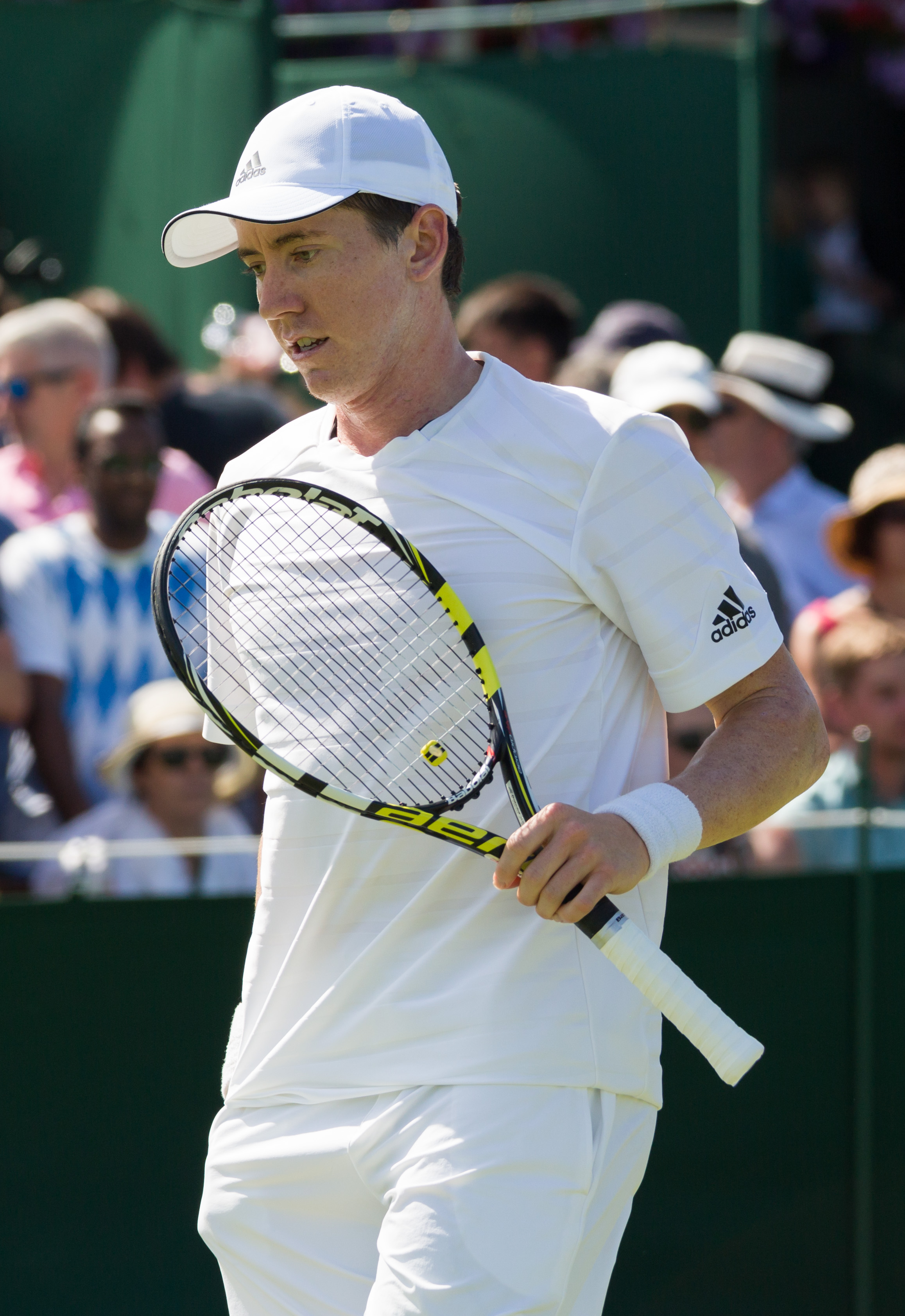 John-Patrick Smith competing in the first round of the 2015 Wimbledon Championships.